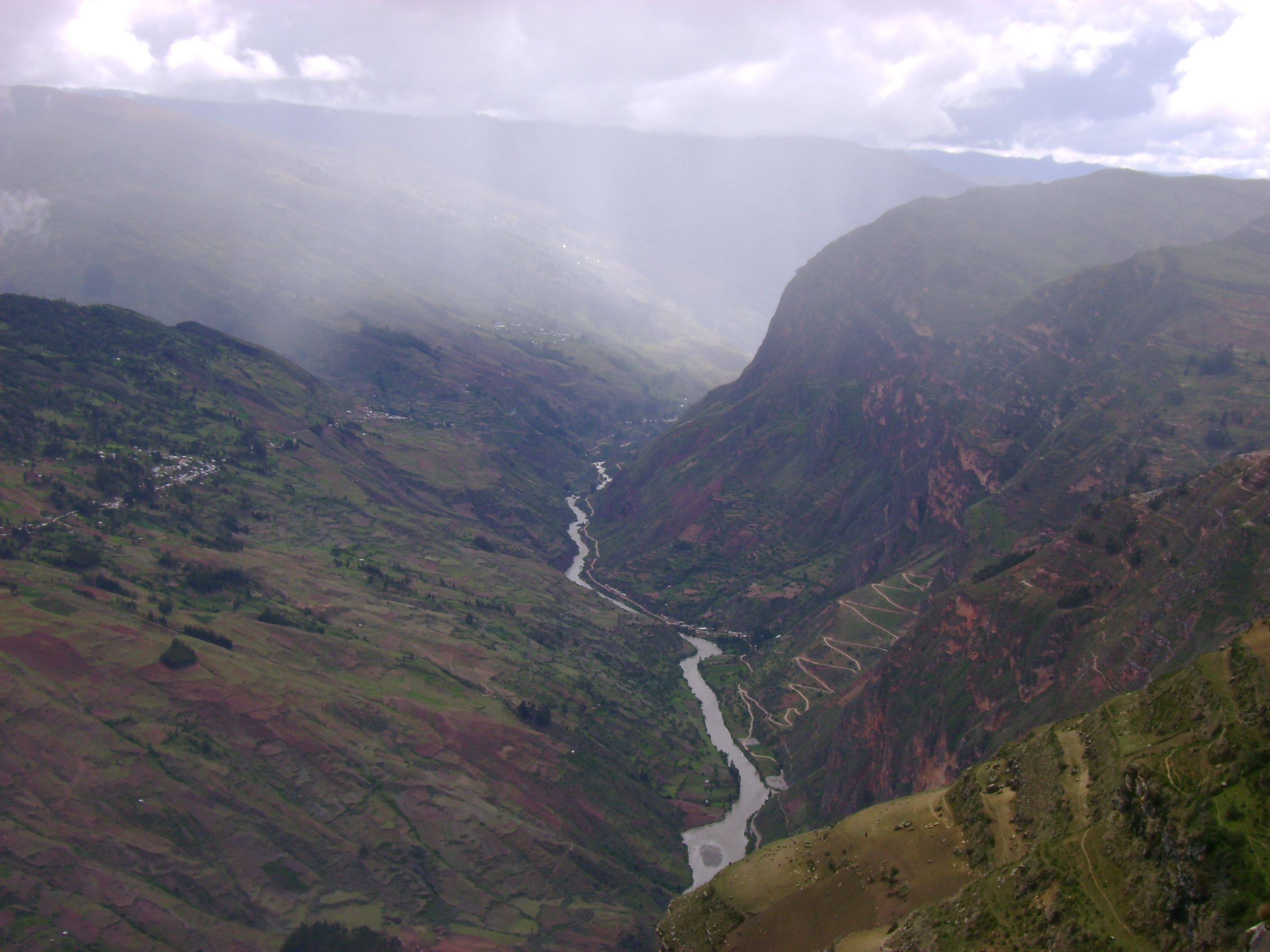 Marañón River and Cochapata bends.